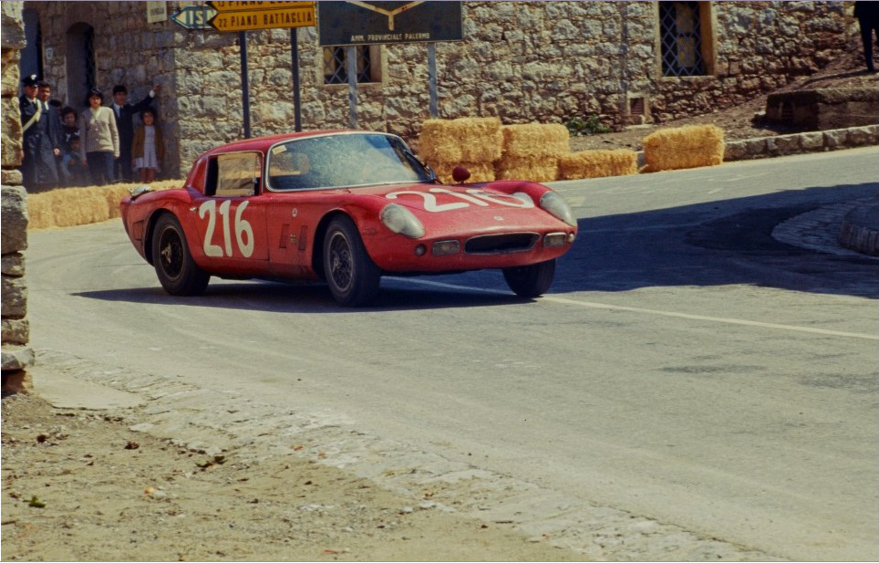 ASA 411 berlinetta is entry #216 at Targa Florio on 8 May 1966. It was driven by Spartaco Dini and Giuseppe Dalla Torre. They did not finish.[1] There is a notable lawyer named Giuseppe Dalla Torre (born 1943), is it him?